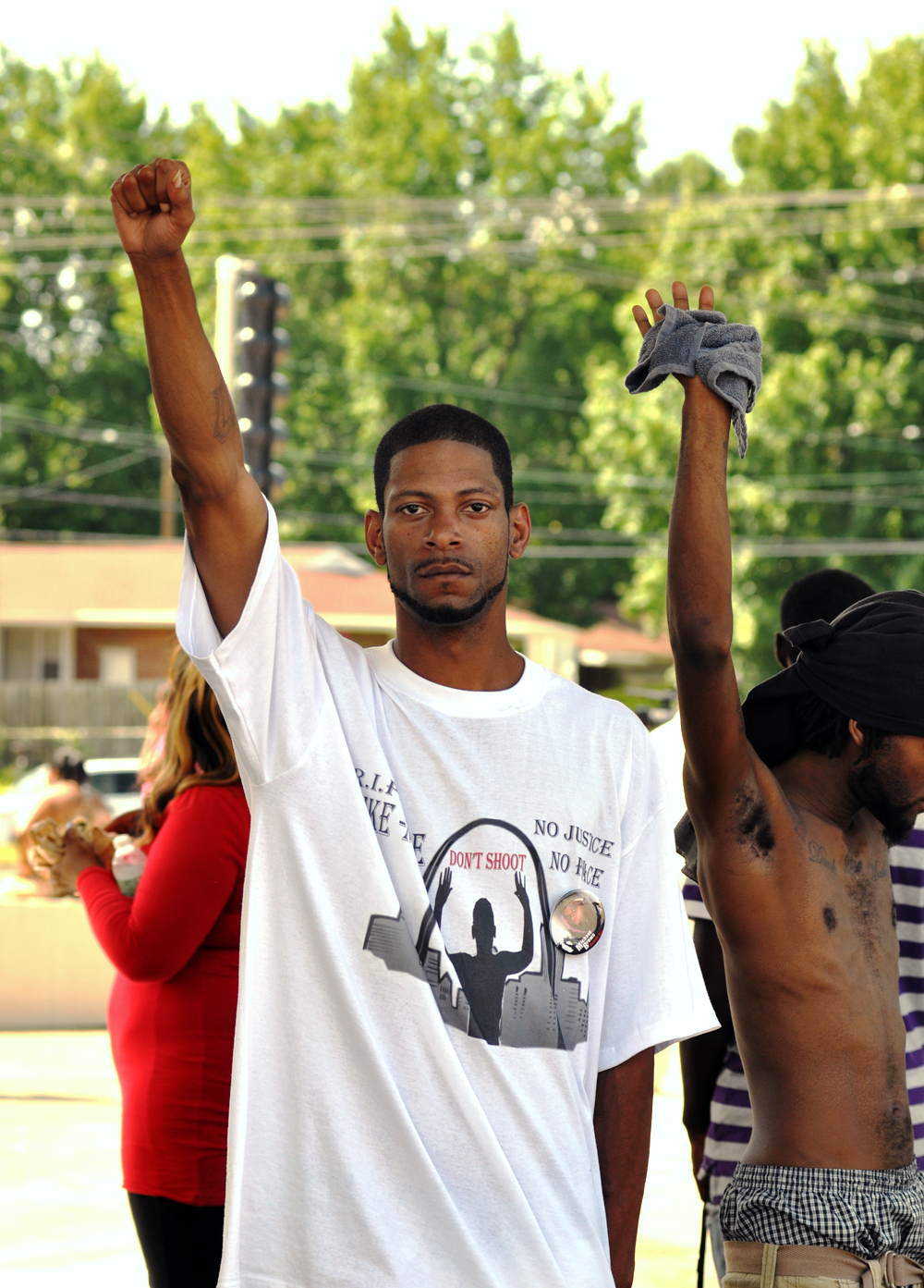 Protester raises his hand in black power salute.